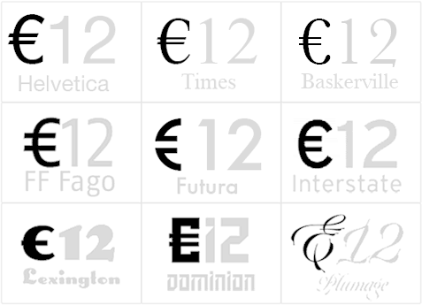 The diverse adaptation of the euro sign by typographers.